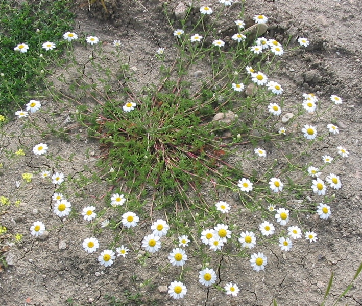 Cropped version of Image:Anacyclus clavatus habito.jpg by User:Alberto Salguero